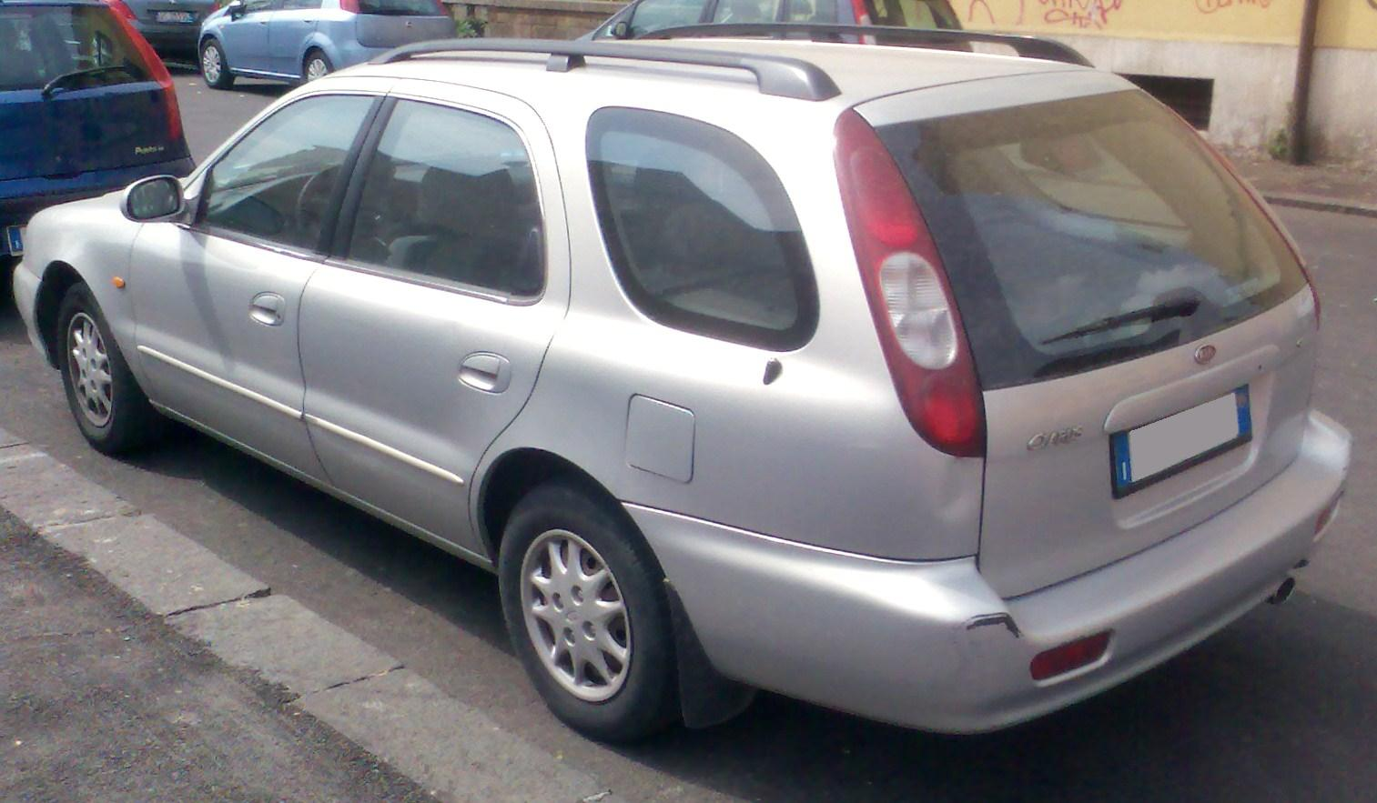 Kia Clarus SW